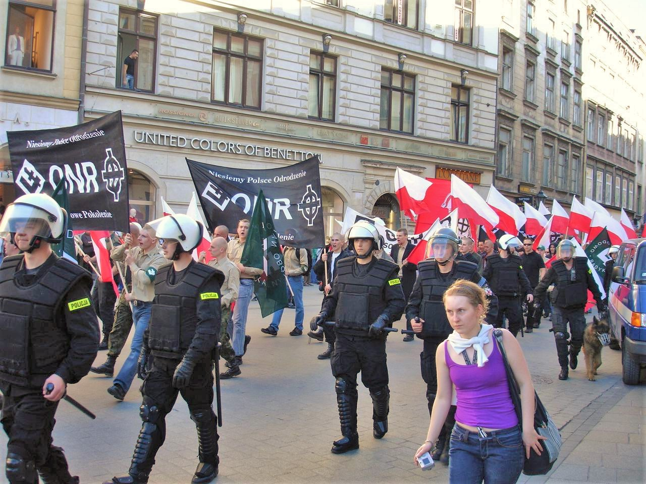 Polish nationalist political party ONR - Anniversary Day demonstration in Kraków, Poland, 2007 04 14